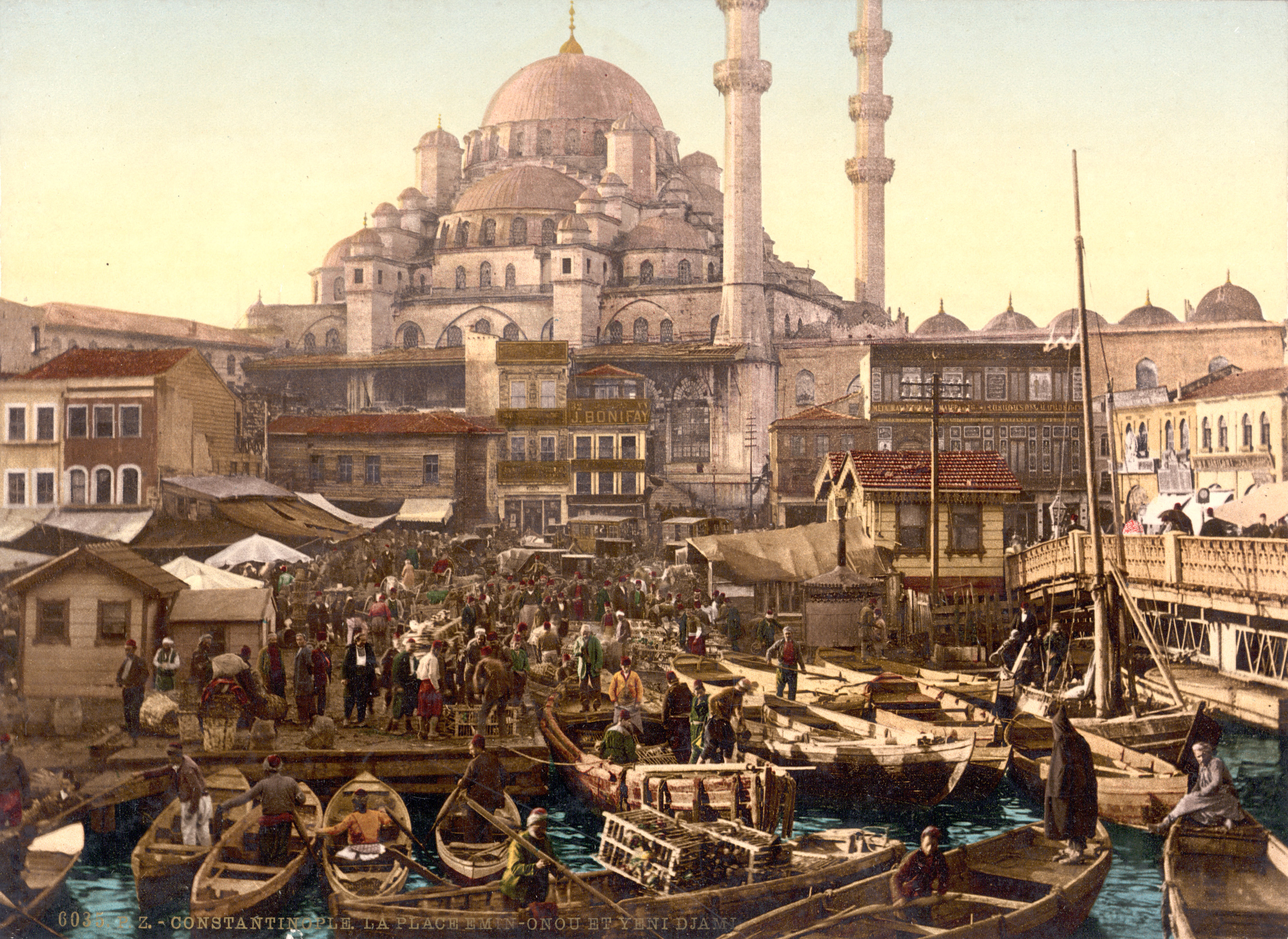 6035 P.Z. - Constantinople. La place Emin-Onou [Eminönü] et Yeni Djami [Yeni Cami, the New Mosque]. From the Photochrom Prints Collection at the Library of Congress More photochroms from Turkey | More photochrom prints [PD] This picture is in the public domain